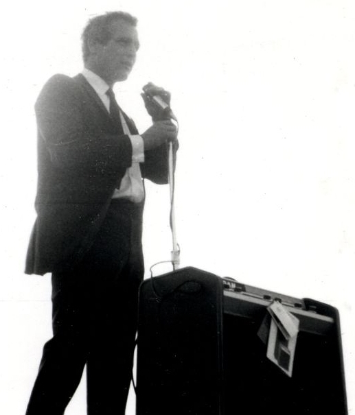 Paul Newman at a political rally for Eugene McCarthy in the parking lot of Semon's in Menomonee Falls, Wisconsin, 1968.